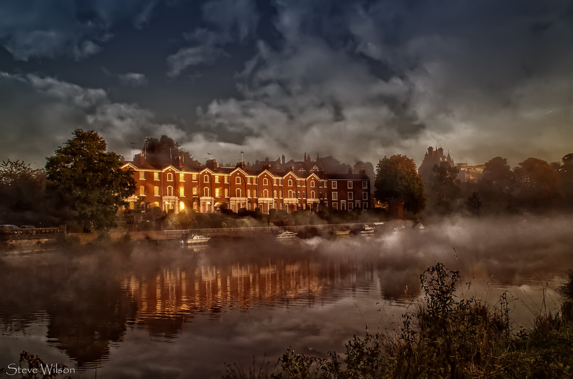 Photographed from The Meadows in Chester.